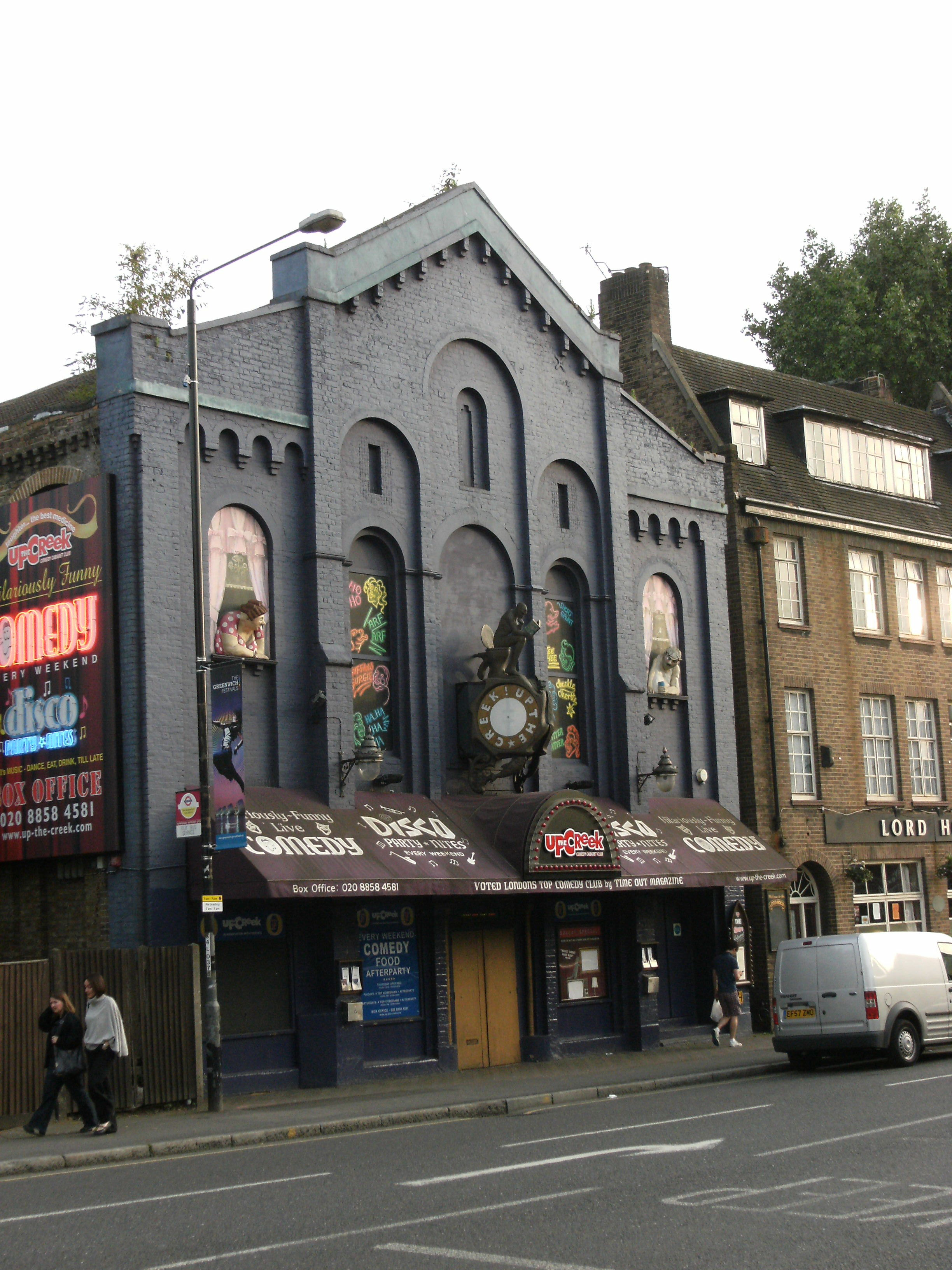 "Up The Creek" Comedy Club, 302 Creek Rd, Greenwich, London SE10.